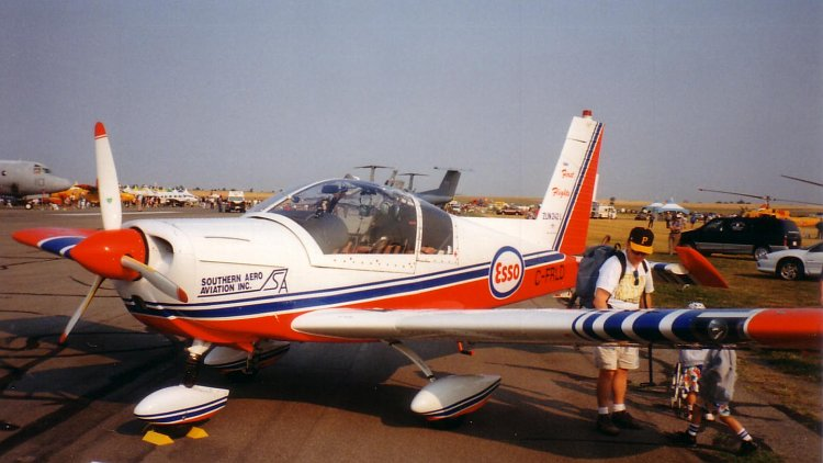 I took this photo of a Zlin 242L in 1994 This photo is of Zlin 242L SN#664 which was owned and flown by Thomas Heath of Calgary, Alberta, during the 1994-1997 air show seasons. Esso Aviation was the primary sponsor.